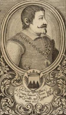 Pedro Tellez Giron y de la Cueva viceroy of Naples